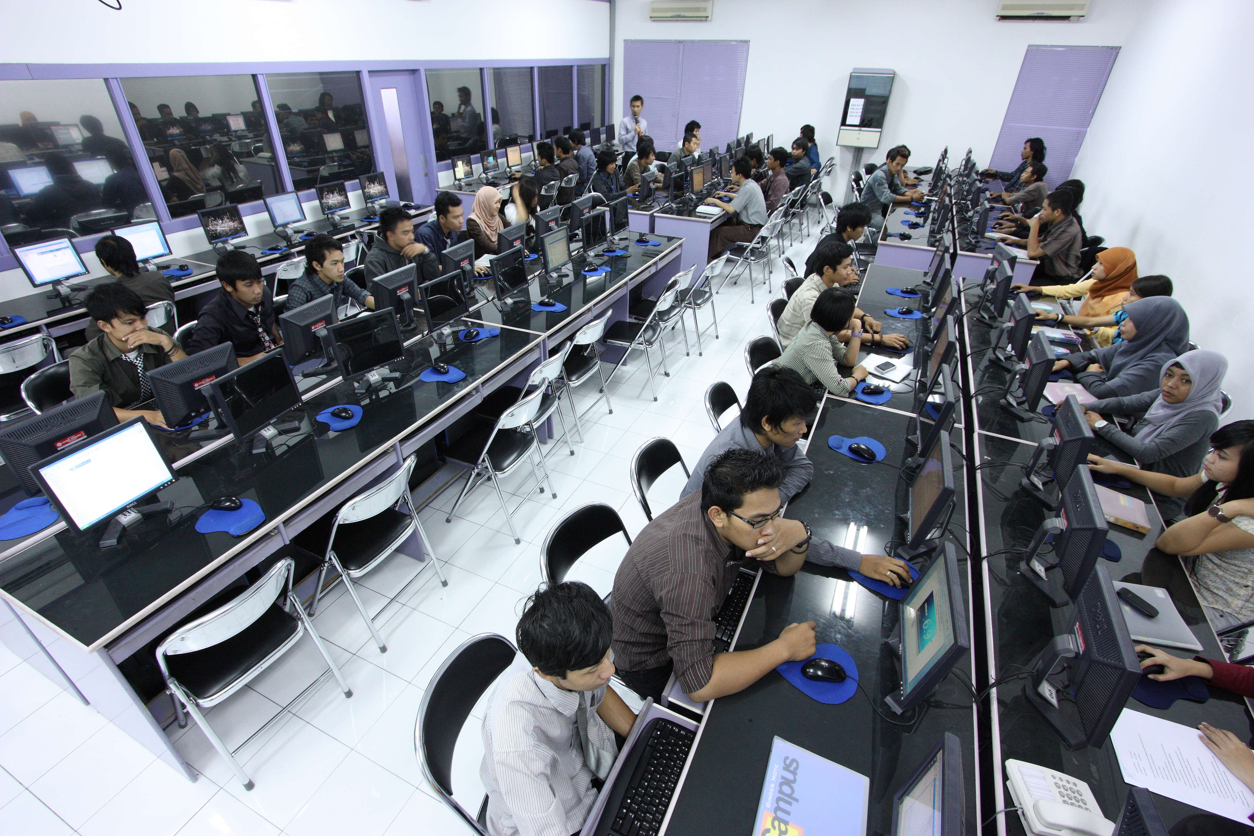 Internet and e-Commerce Lab